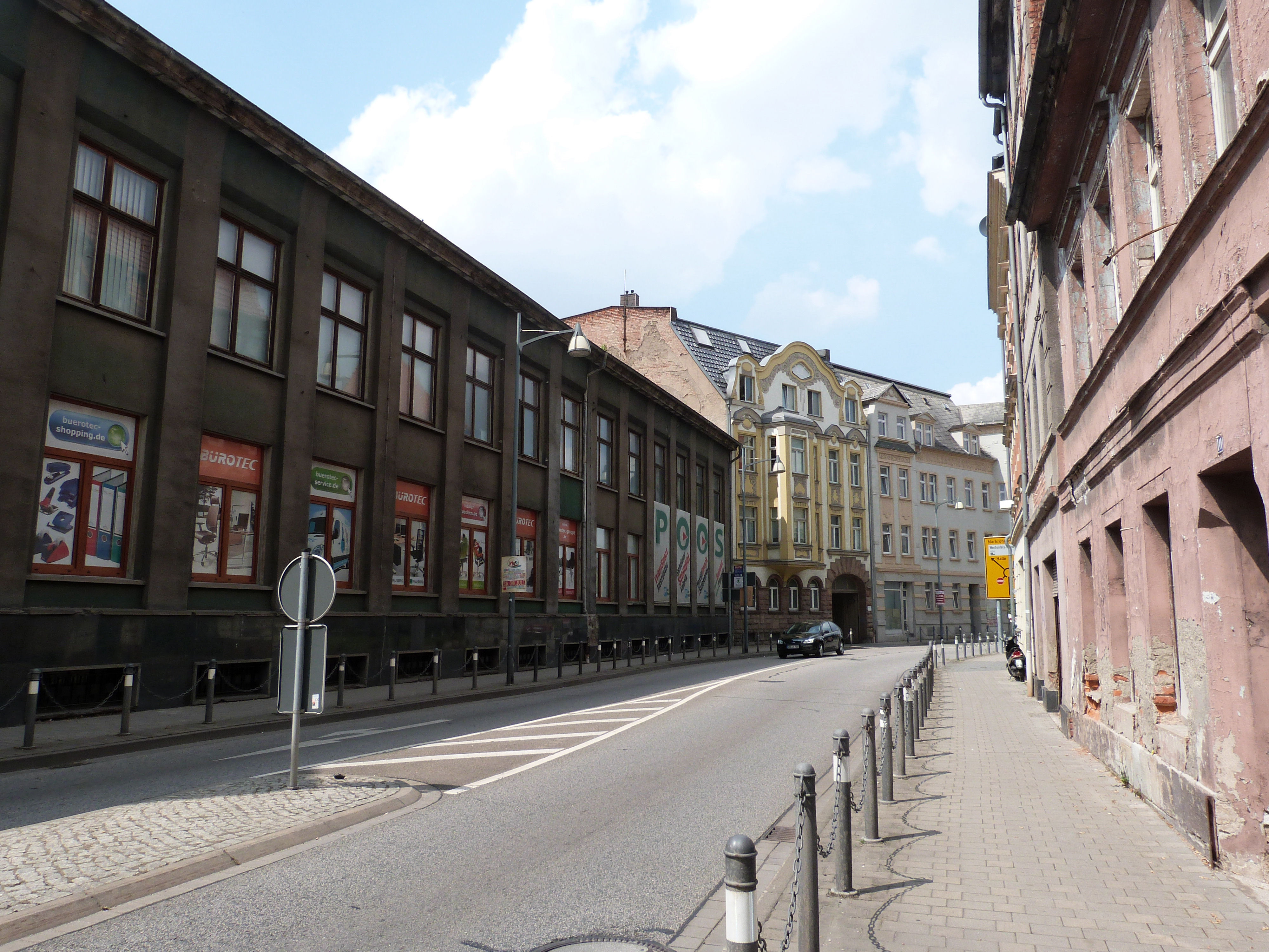 Street Friedrichsstraße in Weissenfels, Saxony-Anhalt